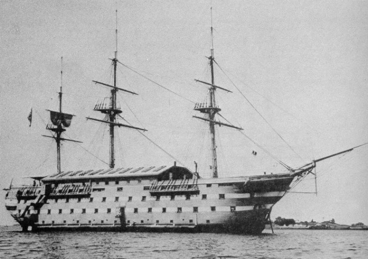 National Archives photo of USS New Hampshire, date unknown but before 1921. (larger version)